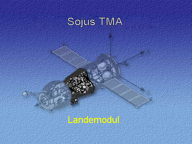 This graphic highlights the Soyuz spacecraft's Descent Module (with german labeling).